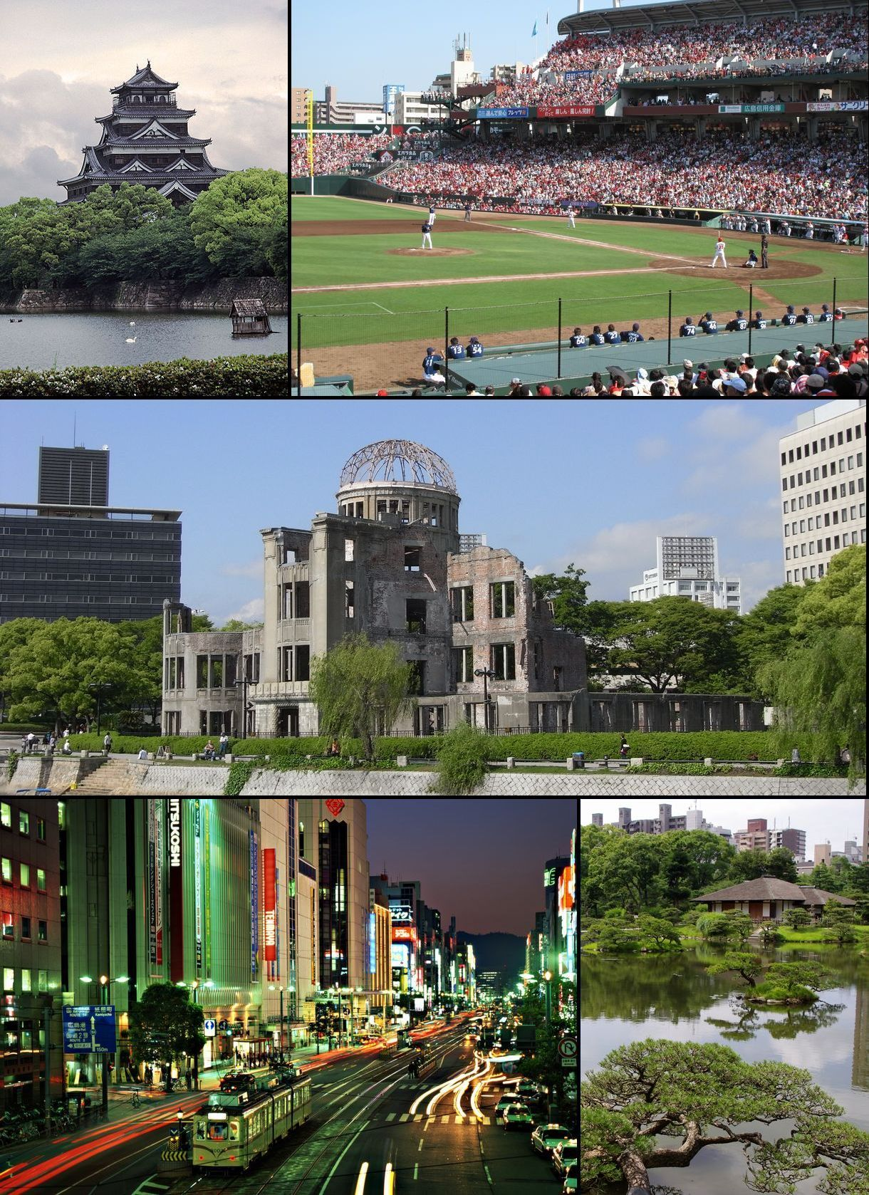 Hiroshima City, JAPANFrom top left:Hiroshima Castle, Baseball game of Hiroshima Toyo Carp in Hiroshima Municipal Baseball Stadium, Hiroshima Peace Memorial (Atomic Bomb Dome), Night view of Ebisu-cho, Shukkei-en (Asano Park)